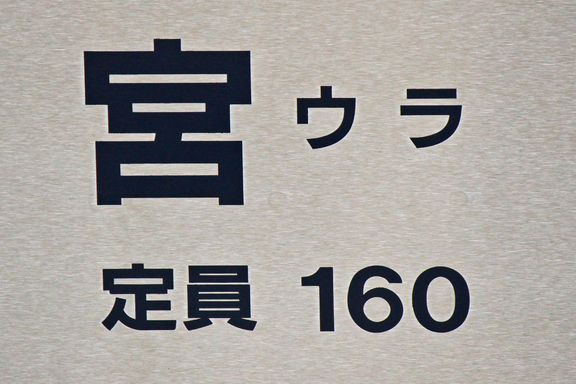 Symbol of JR East Urawa Electric Car Depot, marked on its rolling stock